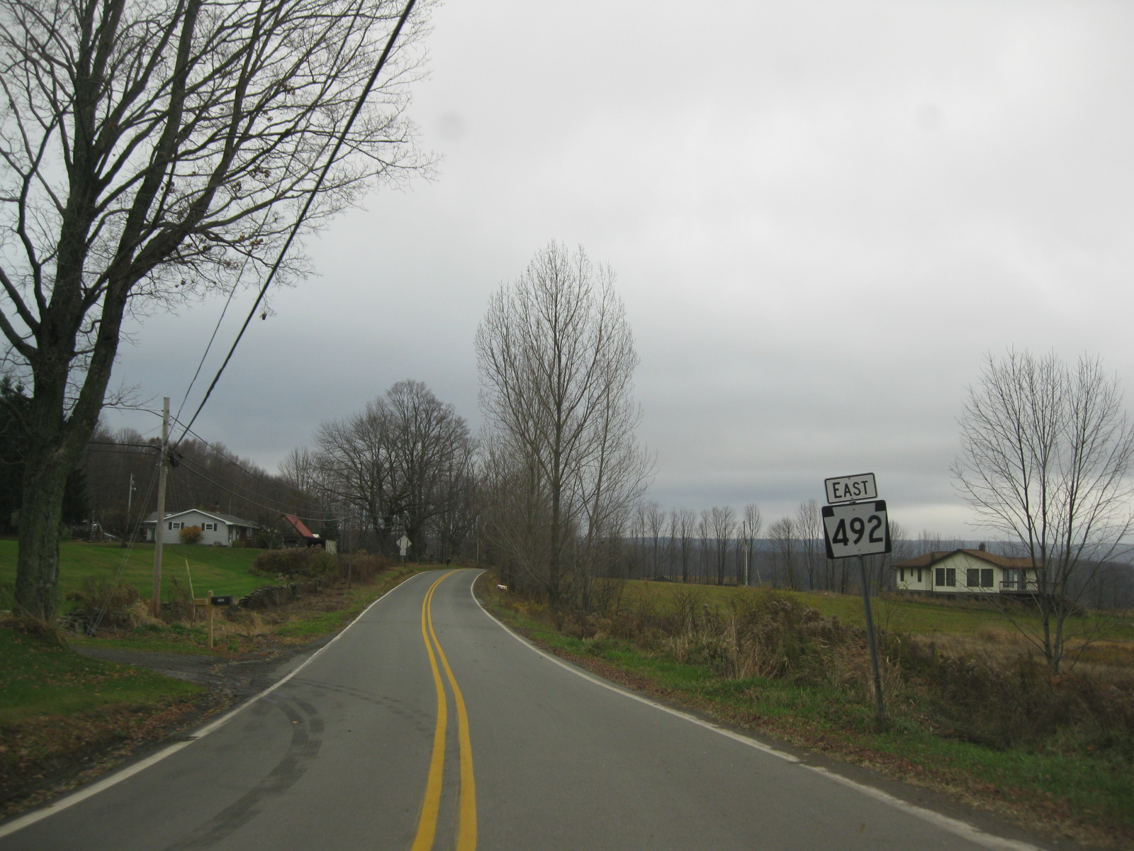 Pennsylvania State Route 492 heading eastward as a two-lane road through Jackson Township.